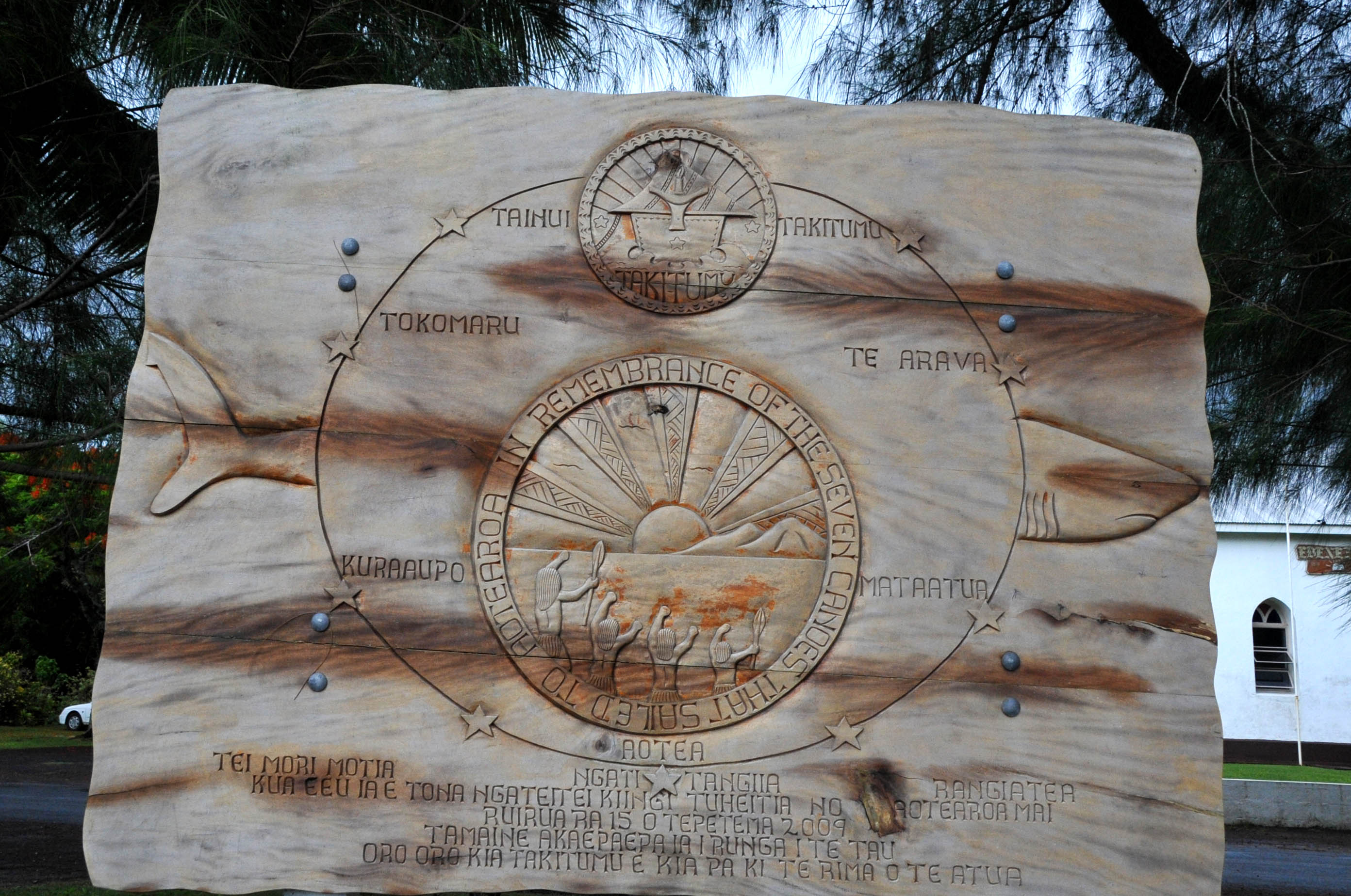 NGATANGIIA BAY FROM WHICH THE COOK ISLANDERS LEFT IN 30 BOATS TO SETTLE NEW ZEALAND; ONLY 7 SURVIVED THE TRIP AND THE SIGN AND THE CIRCLE OF 7 STONES COMMEMORATES THIS EVENT